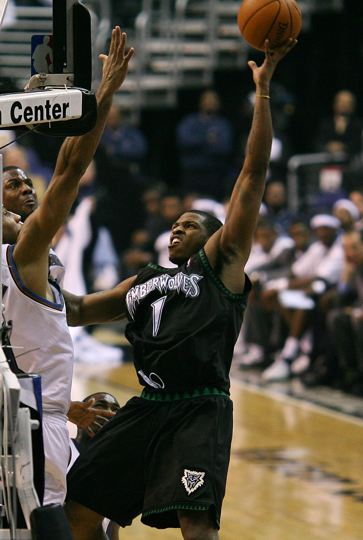 Rashad McCants playing with the Minnesota Timberwolves